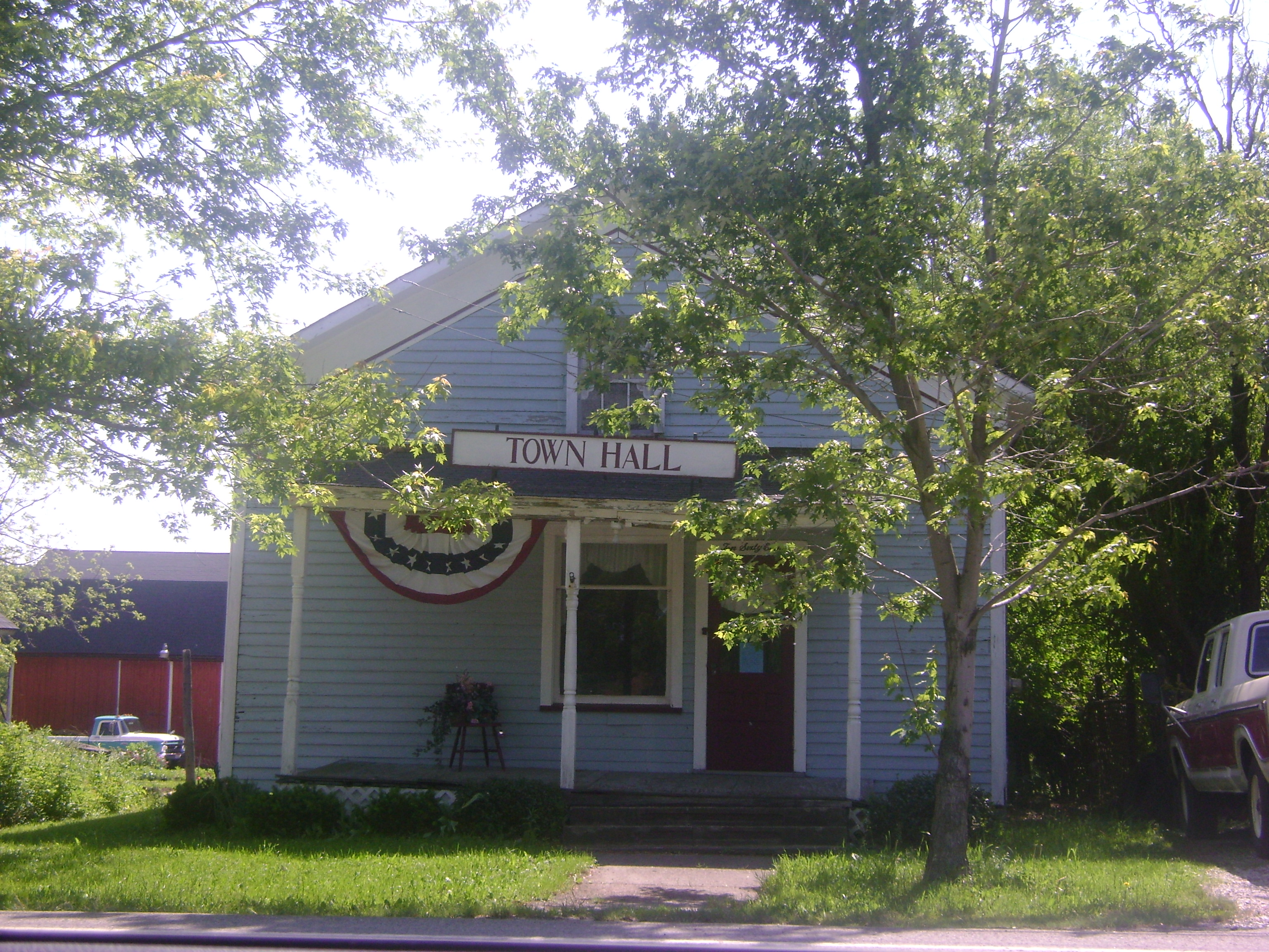 The town hall of Pierpont Township, Ashtabula County, Ohio